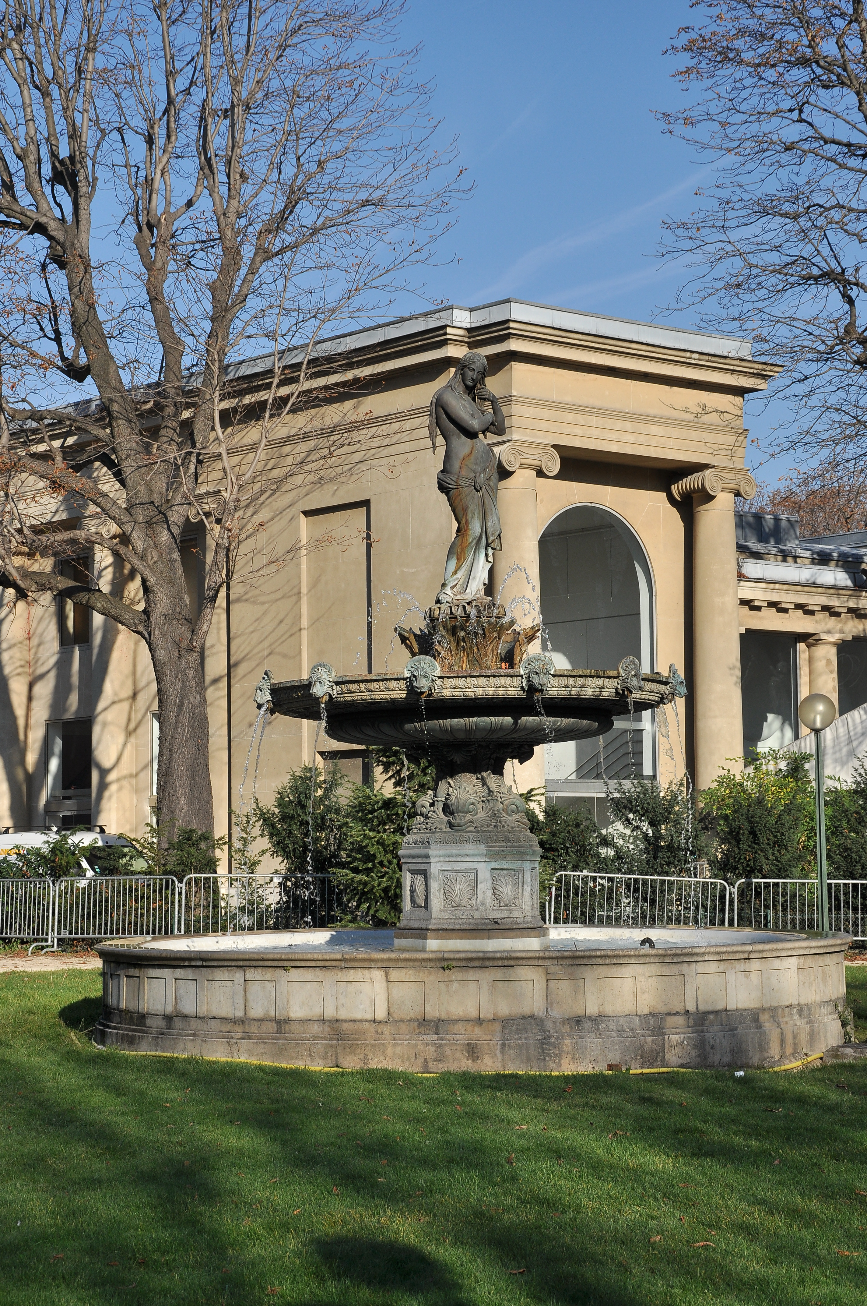 Fontaine des Ambassadeurs called also Fontaine de Vénus is located in the Gardens of Champs-Élysées, Carré des Ambassadeurs at 8th district of Paris. Built in 1840 by Jacques Hittorff architect and sculptor Francisque Duret.